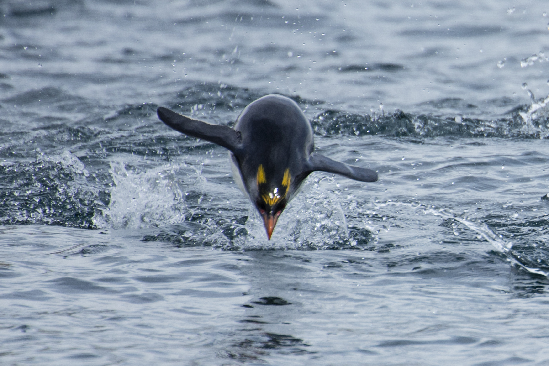 Macaroni penguin (Eudyptes chrysolophus), Cooper Bay, South Georgia